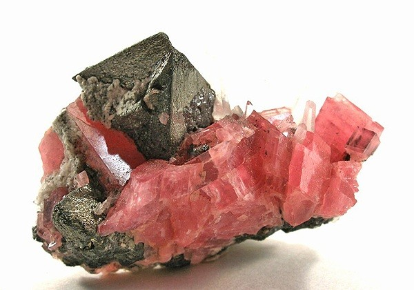 Rhodochrosite, Tetrahedrite, Quartz Locality: Sweet Home Mine (Home Sweet Home Mine), Mount Bross, Alma District, Park County, Colorado, USA (Locality at ) Gemmy pink rhodo crystals, with a single 1.5-cm tetrahedrite and gemmy little quartz needles. There is some minimal but visual damage to the rhodo crystals, so this piece is more about the nice combo. 4.2 x 2.7 x 2.2cm